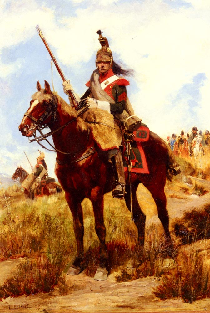 An élite Soldier of the 12th Dragoon Regiment on vedette, Oil on canvas, private collection.